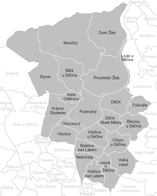 Cadastral map of Děčín